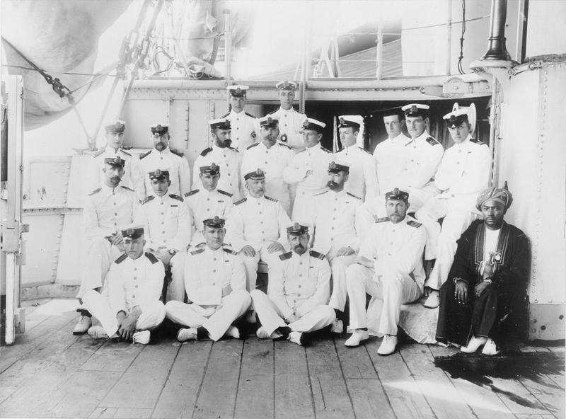 The Royal Navy 1899 - 1902 Officers of HMS FORTE, 1901-02, Zanzibar. From top: Maryatt, Begg, Brown, Holland, Deacon, Oliver, Johnson, Charles, Todd, Bunton, Dawson, Hunt, Captain Sparkes, Apps. Steel, Petch, Steel, Brown, Bean, Barber (Interpreter).